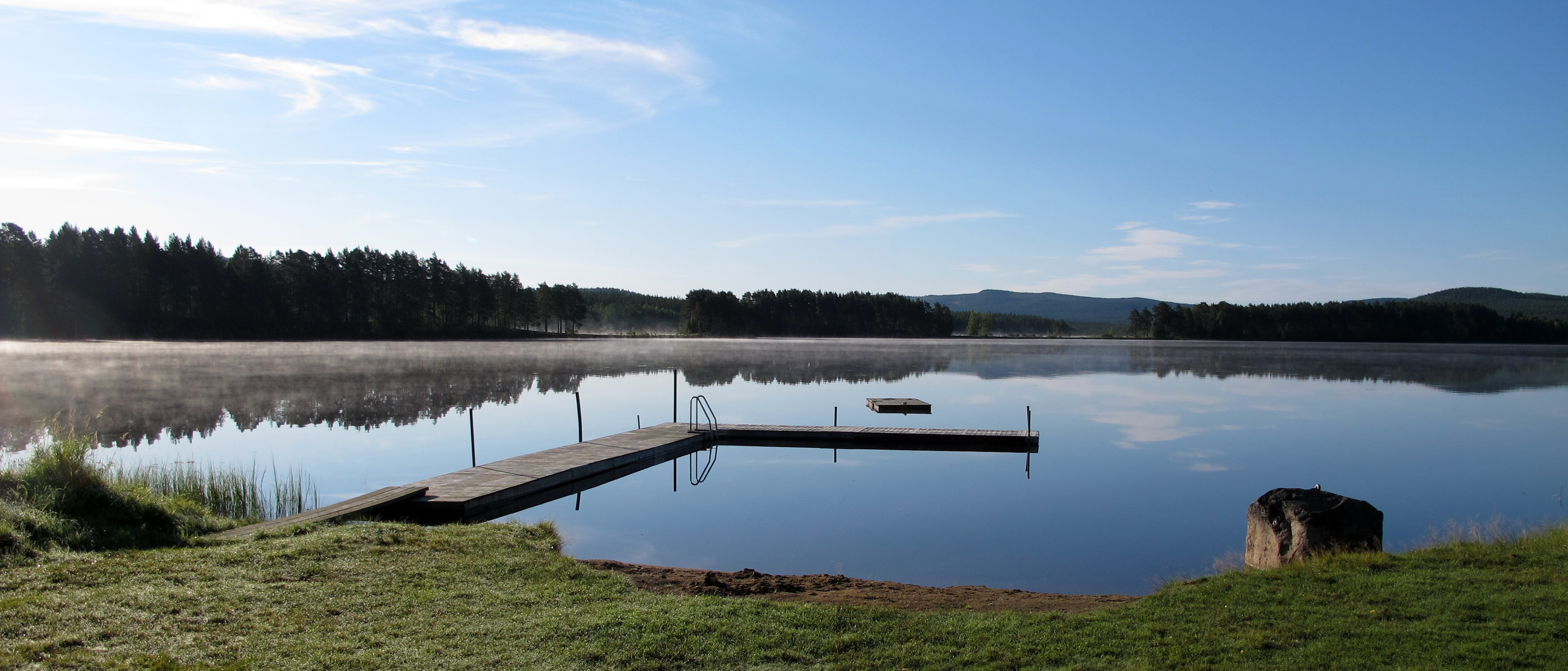 The lake Hämmen on the border between the provinces Kopparberg and Gävleborg in Sweden.